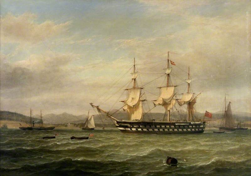 HMS Hogue, by William Clark Medium oil on canvas Measurements H 49 x W 74.5 cm Accession number T.1960.5